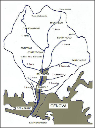 Province of Genoa (Italy), map of Polcevera Valley